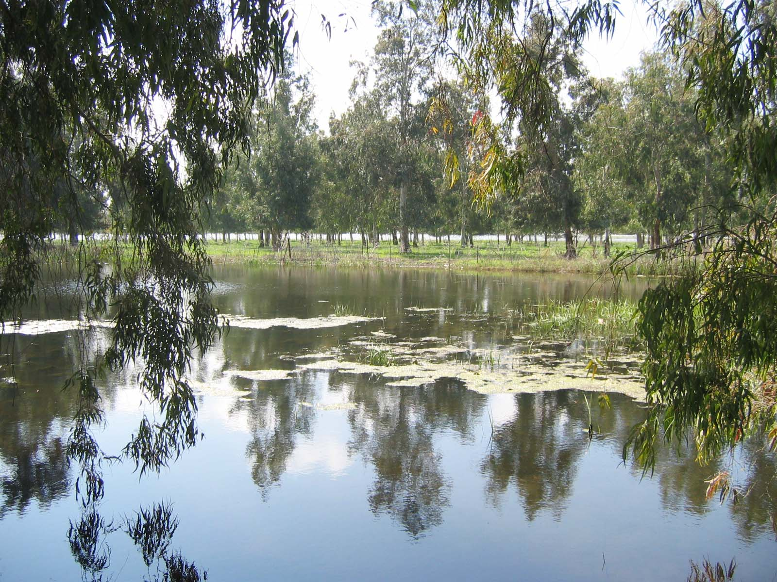 Geography of Israel